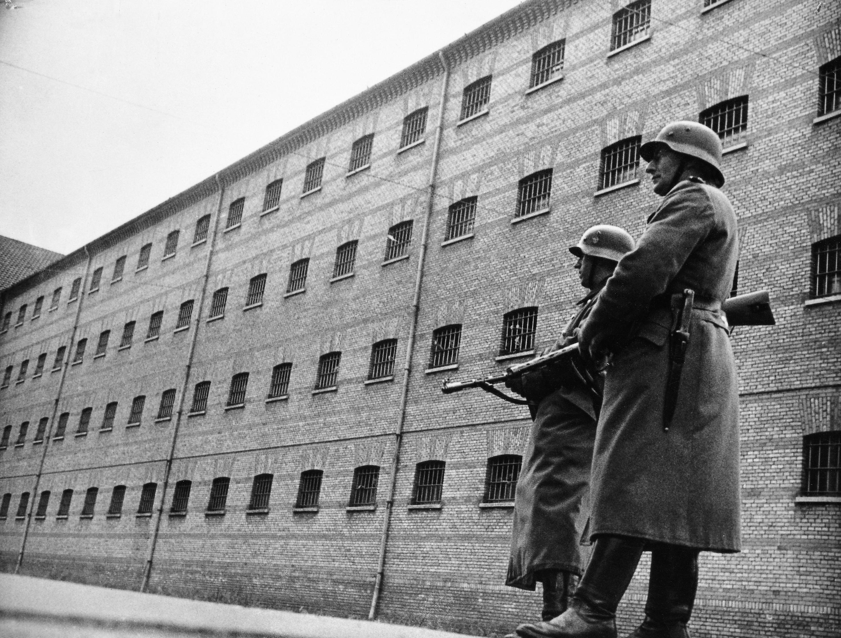 Date: Between September 1943 and May 1945. More images from The Museum of Danish Resistance